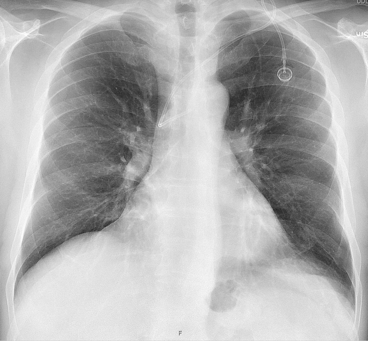 Chest X-ray of a 66 year old man who received a port for chemotherapy for a pancreatic cancer. It shows that the tip of the port is placed in the azygos vein. As of upload date, it has remained functional for therapy for 9 months, although there have been occasional problems aspirating from it.